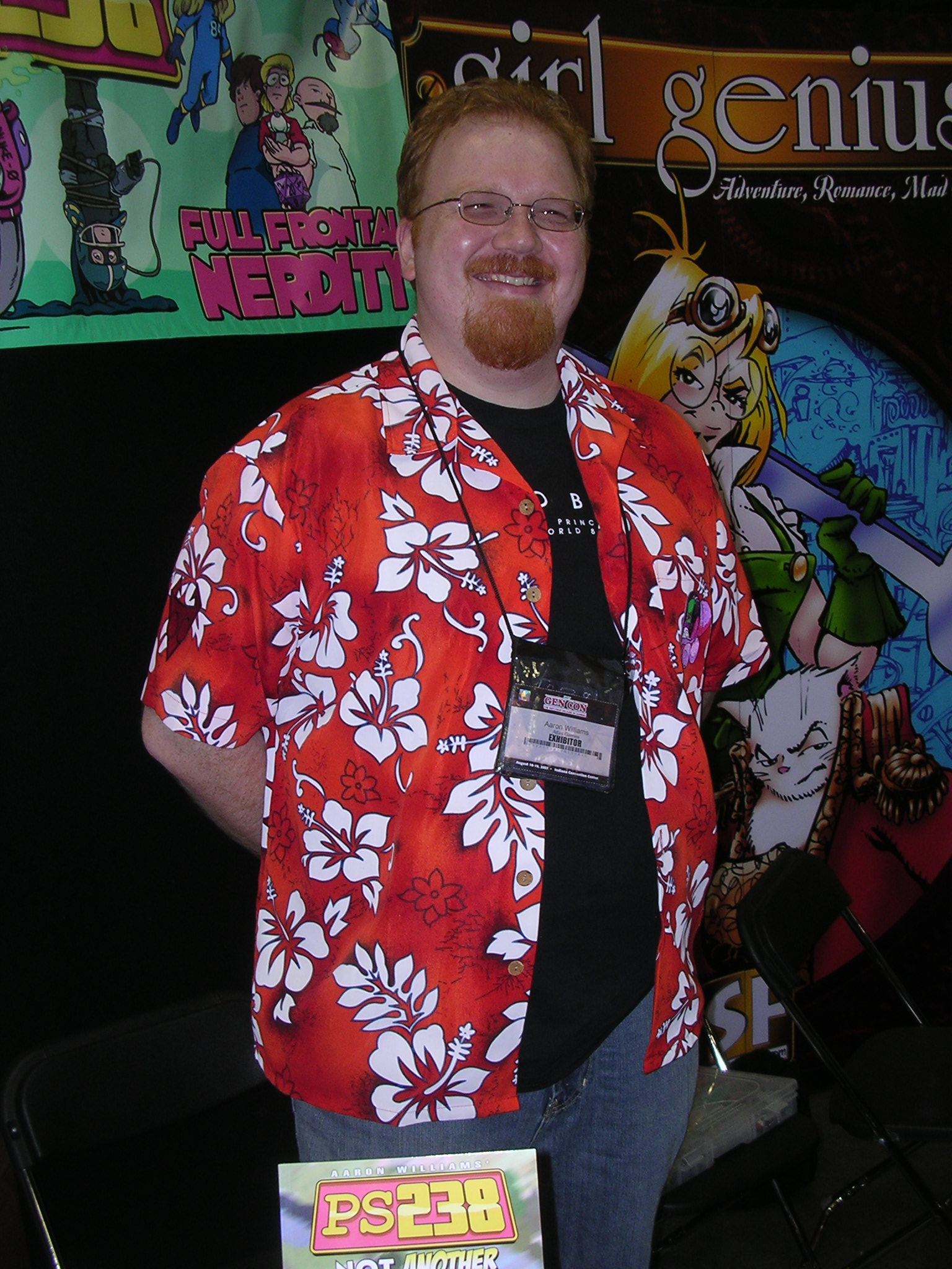 Photograph of Aaron Williams, creator of PS238, Nodwick, Full Frontal Nerdity and other comics. The photo was taken at Gen Con Indy 2007 on 2007-08-17. Williams is standing in the "Studio Foglio" booth which he shared with them (booth 2326). Visible in the background to the left is a banner advertising Aaron's PS238 and Full Frontal Nerdity comics. To the background right is a banner advertising Girl Genius from Studio Foglio, which is not Williams work. The photograph was taken by and is copyright 2007 by the uploader, Alan De Smet. The photograph is multi-licensed under the Creative Commons Attribution 2.5 and 3.0 licenses; you can select the license of your choice. Per the license, credit must be given to "Alan De Smet". Attribution: Alan De Smet